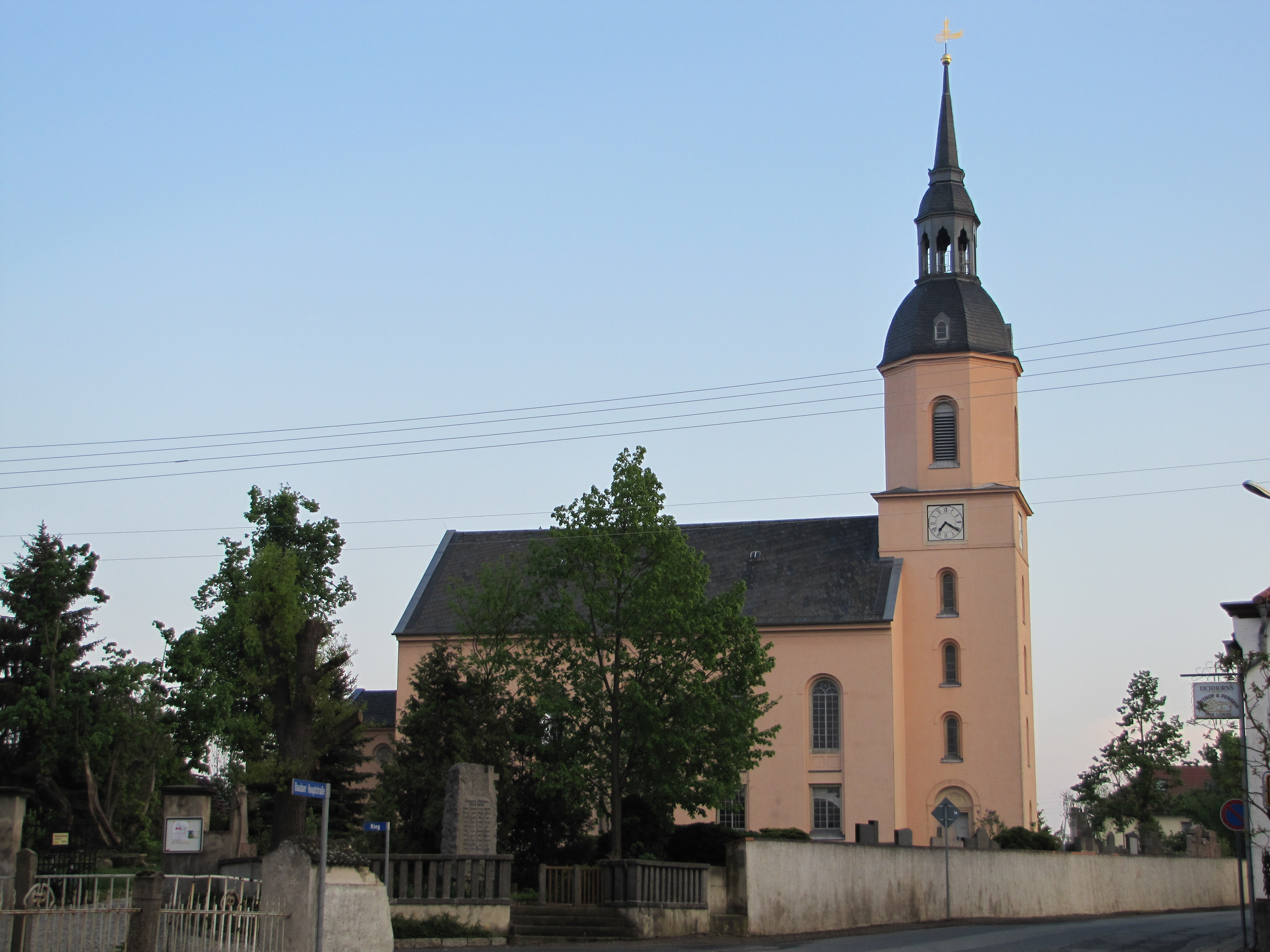 The church in Bauda